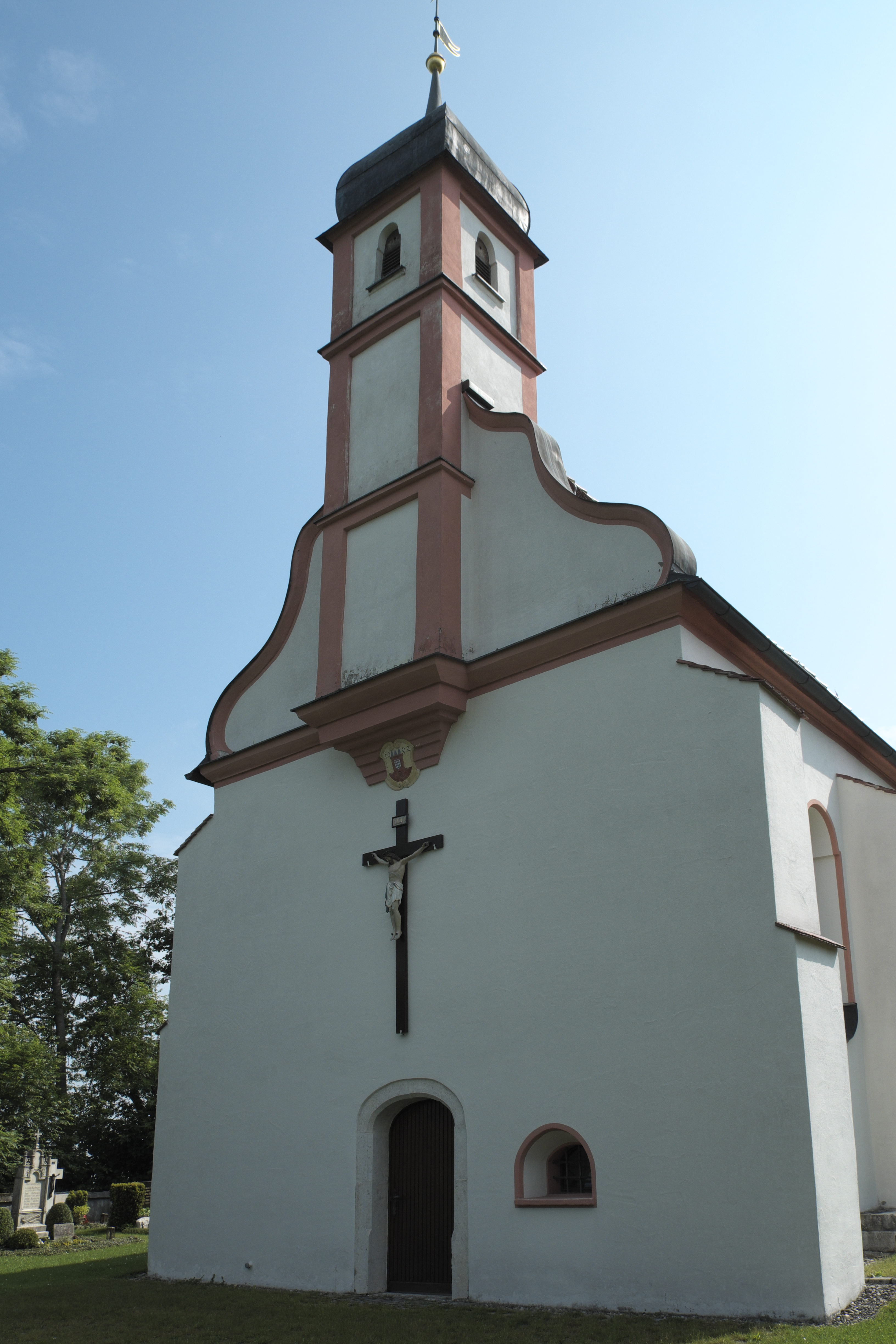 Kapelle St. Georg (Kreuzkapelle), ehemals katholische Pfarrkirche in Bachhagel, einer Gemeinde im Landkreis Dillingen an der Donau (Bayern), Langhaus von 1692, Chor aus dem 15. Jahrhundert, Westfassade mit dem steinernen Stadtwappen von Höchstädt